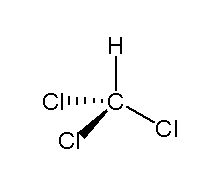 I created the image myself with chemical drawing software and converted it to png. Category:Chemical structures